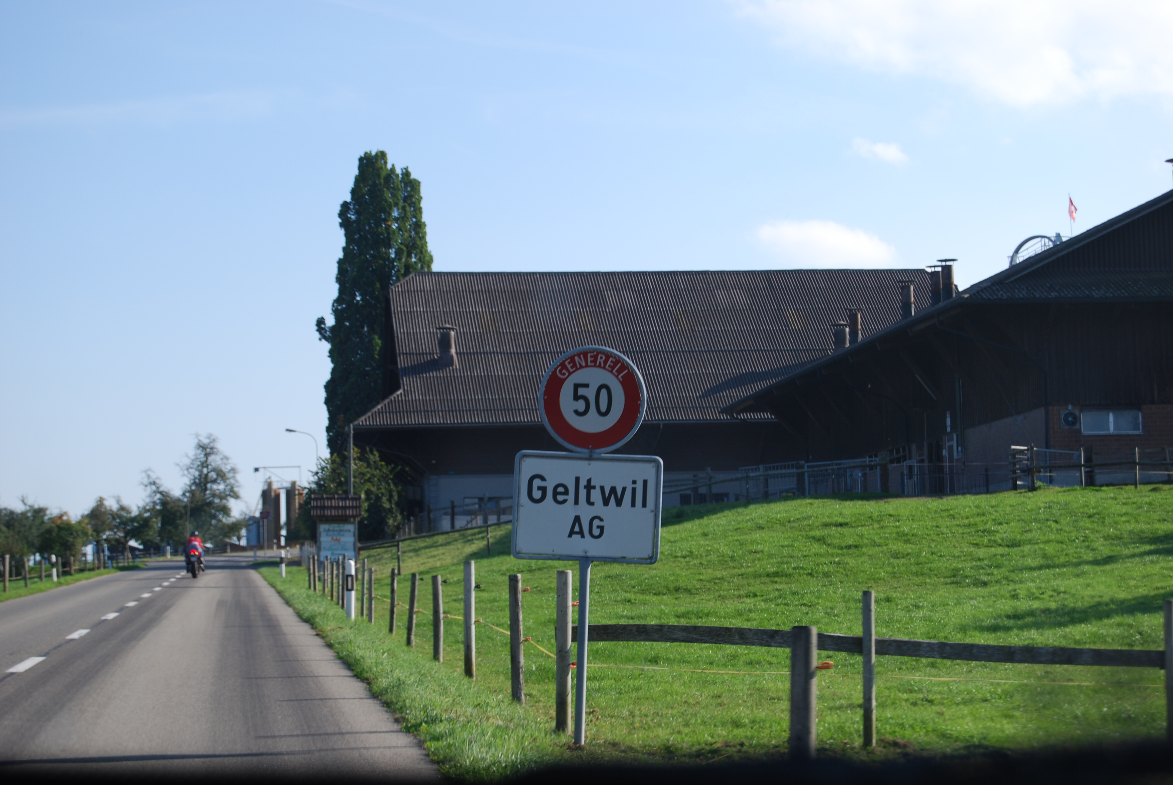 Geltwil, canton of Aargau, SwitzerlandEsperanto: Geltwil, Kantono Argovio, Svislando